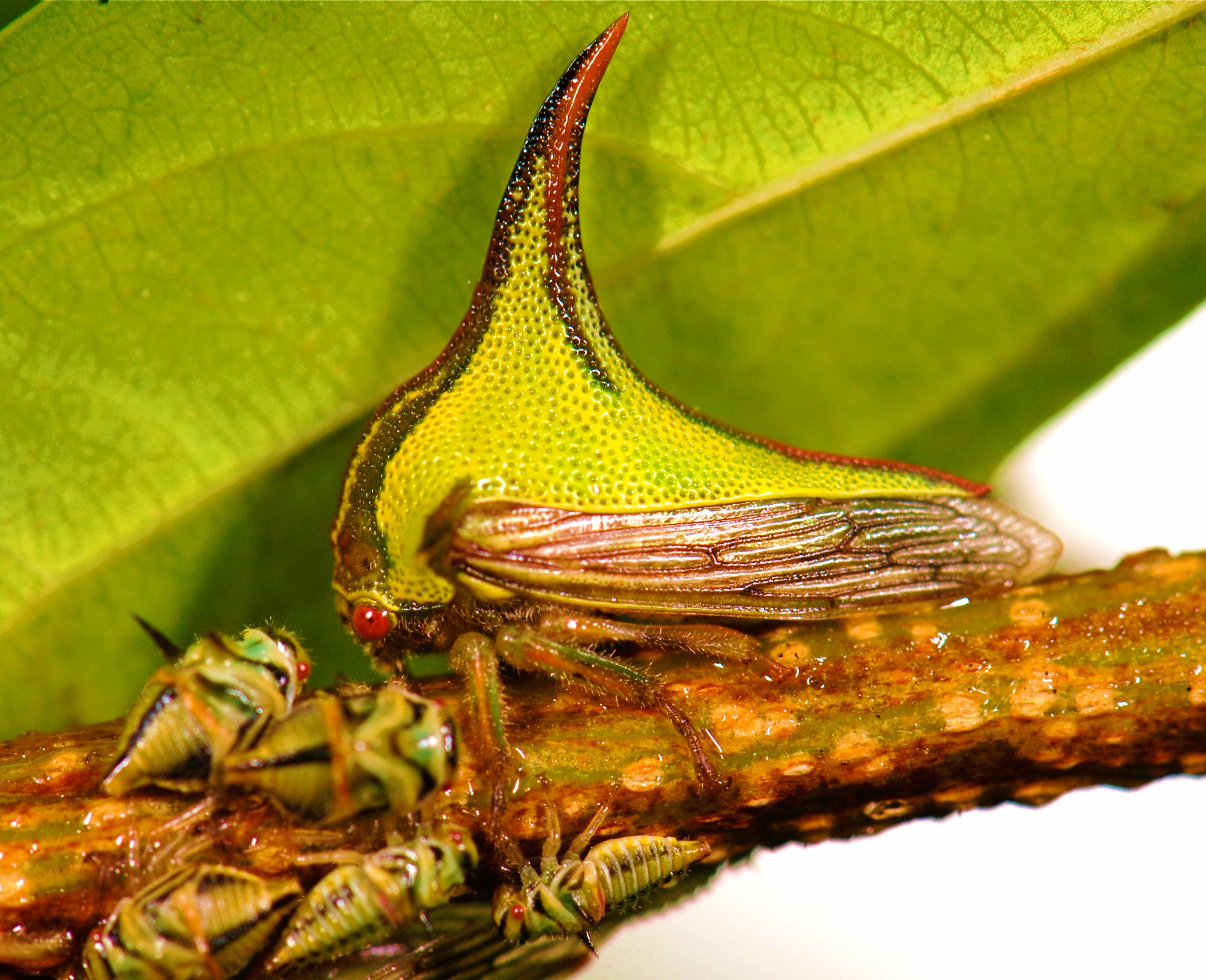 nymphs of this species form aggregations, and send "group" vibrational signals (through plant stems) that elicit anti-predator behavior from the caring female, including wing-fanning and leg-kicking. cool!